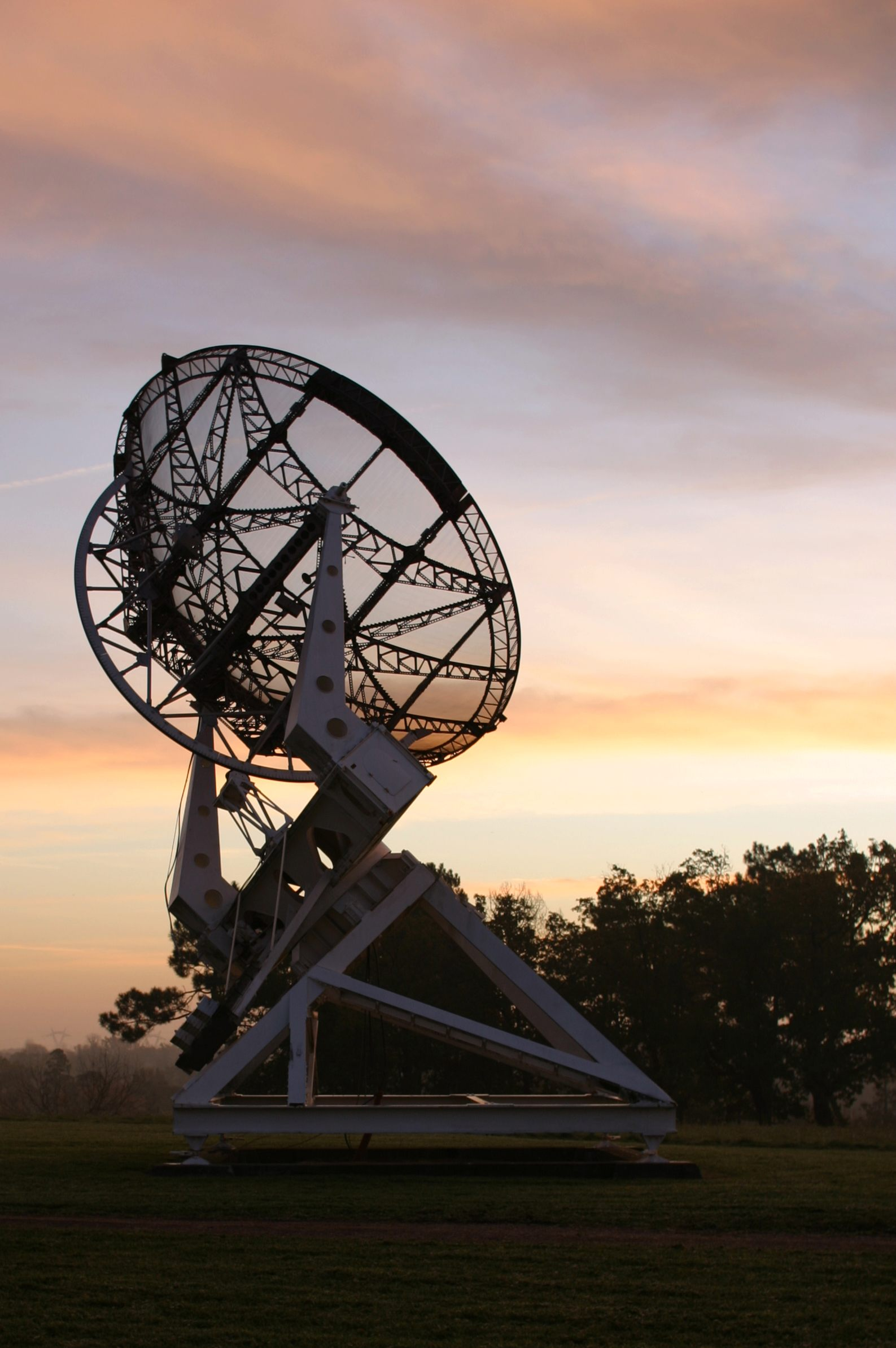 Würzburg radar converted to a radioteslecope after the war, at the Bordeaux observatory. Image cropped from Image:Bordeaux observatory würzburg radar rear view.jpg Copyright © 2006 Med